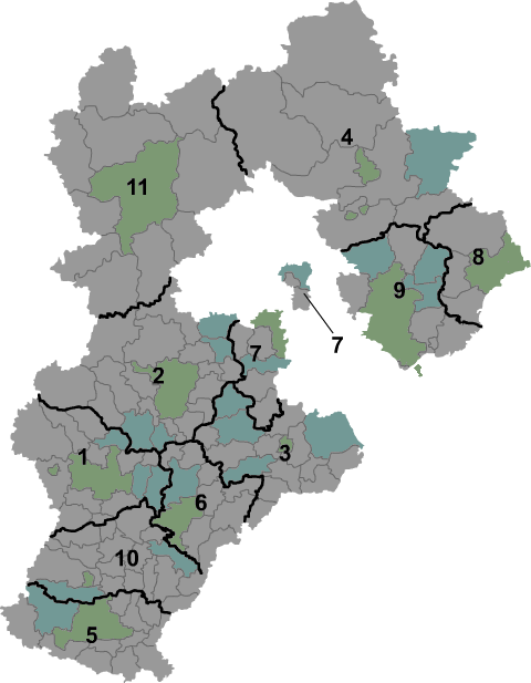 Map of prefectures of Hebei Province